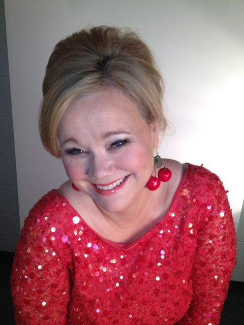 Headshot of Caroline Rhea